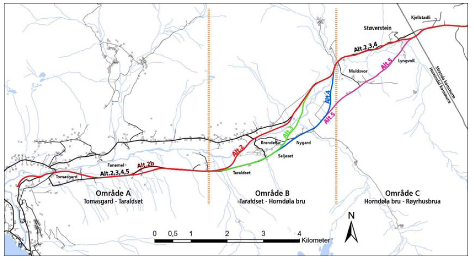 Map of road construction through Hornindal, Nordfjord, road 60.